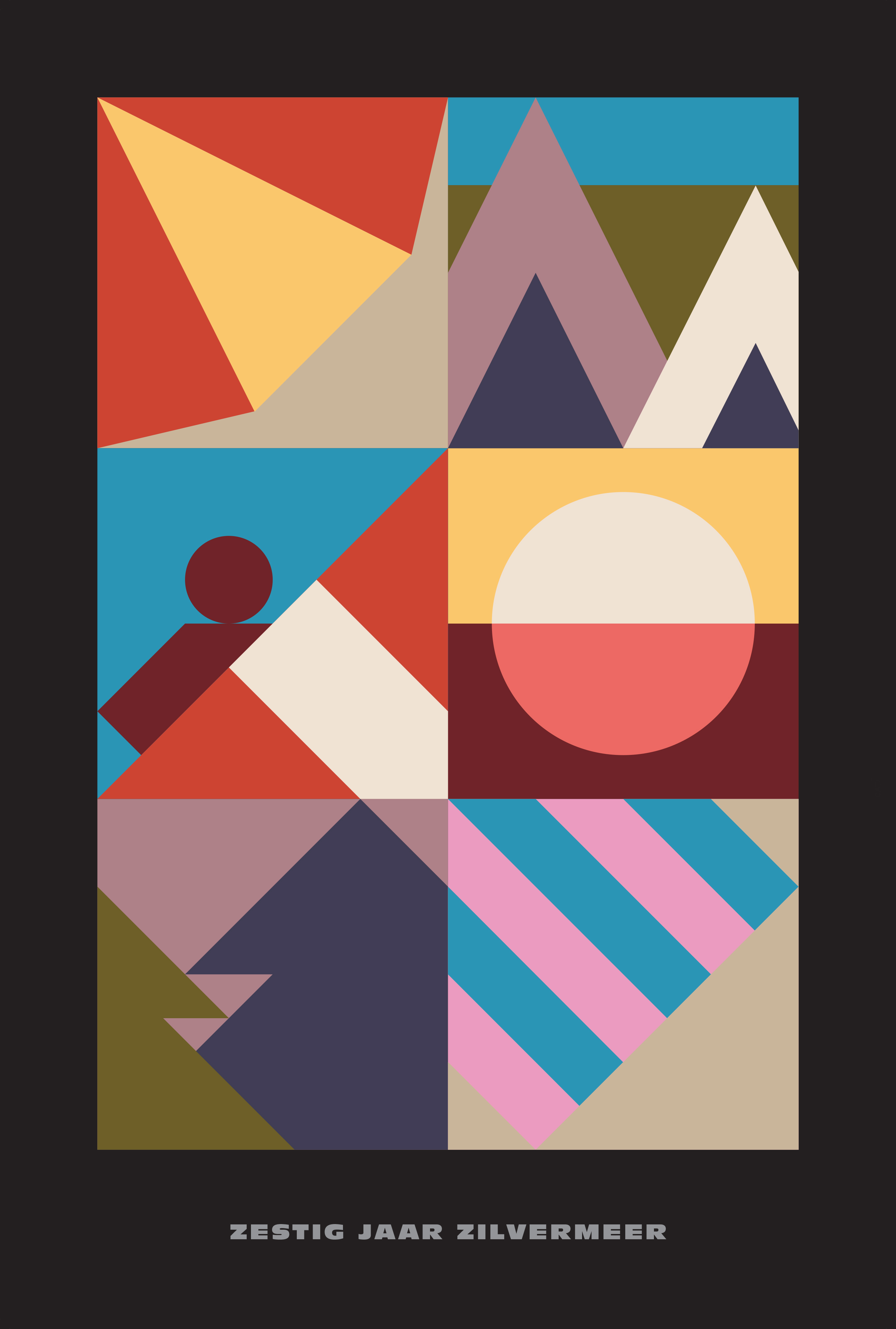 Poster for ‘Zestig jaar Zilvermeer’ (Provincie Antwerpen, 2019)